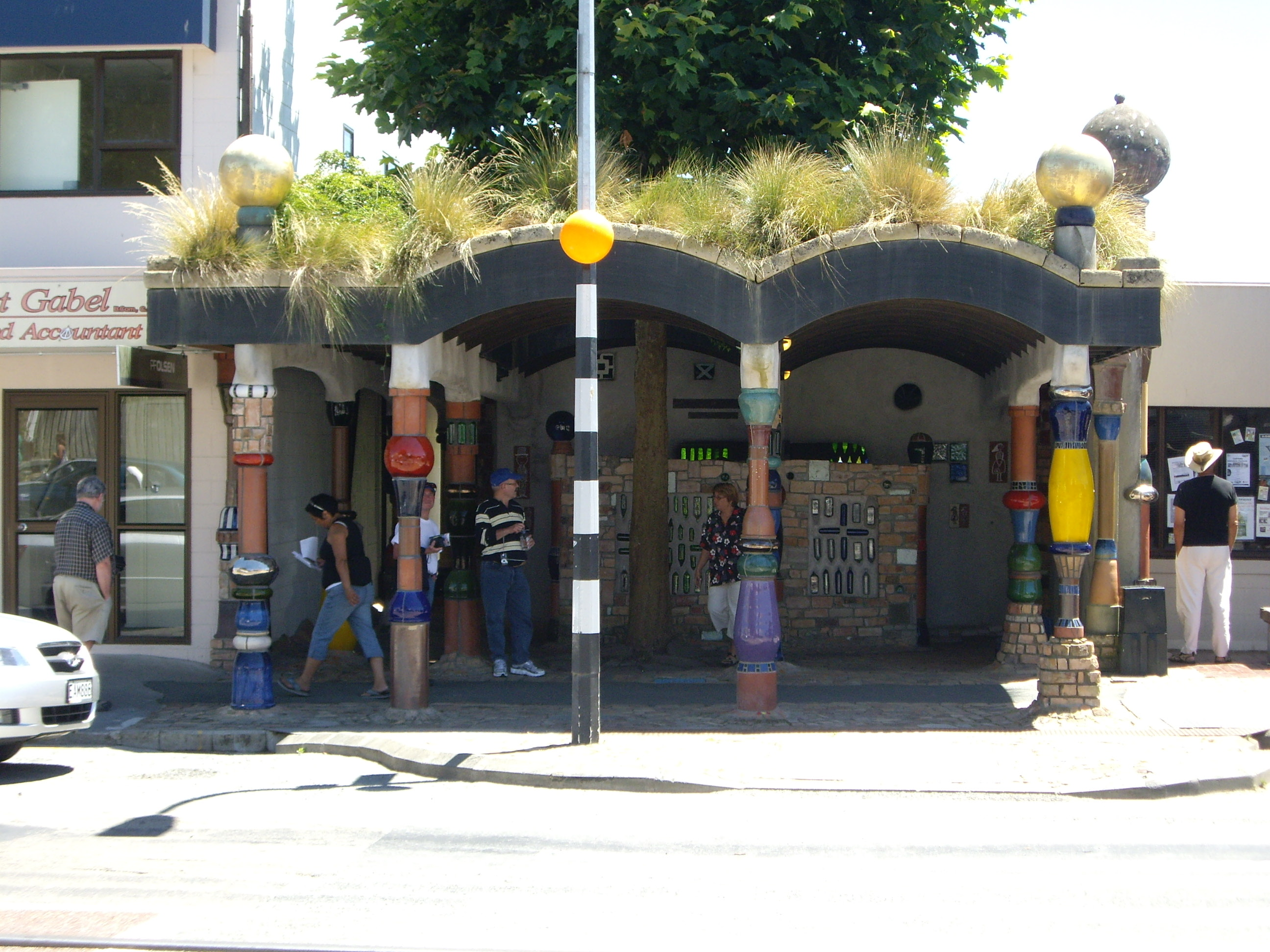 Hundertwasser Toilets, Kawakawa - the entrance.